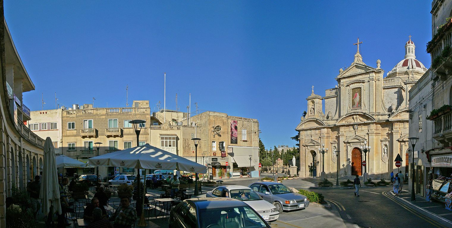 Misraħ il-Parroċċa, the Parish Square in Rabat, Malta